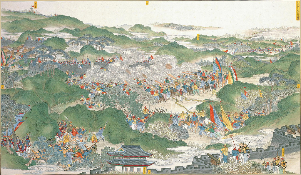 A scene of the Taiping Rebellion, 1850-1864